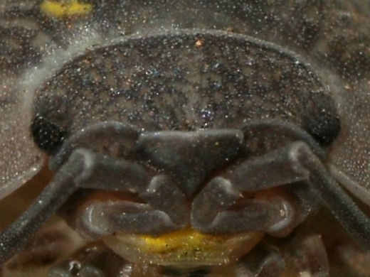 Armadillidium granulatum Brandt, 1833: Detail of head (frontal view).